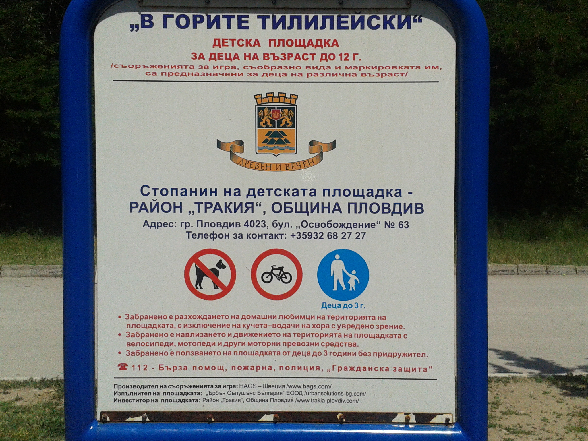 Lauta Park - Plovdiv